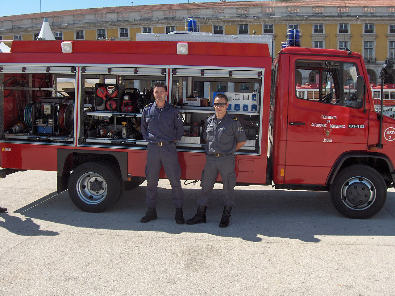 Firemen; Lisbon, Portugal